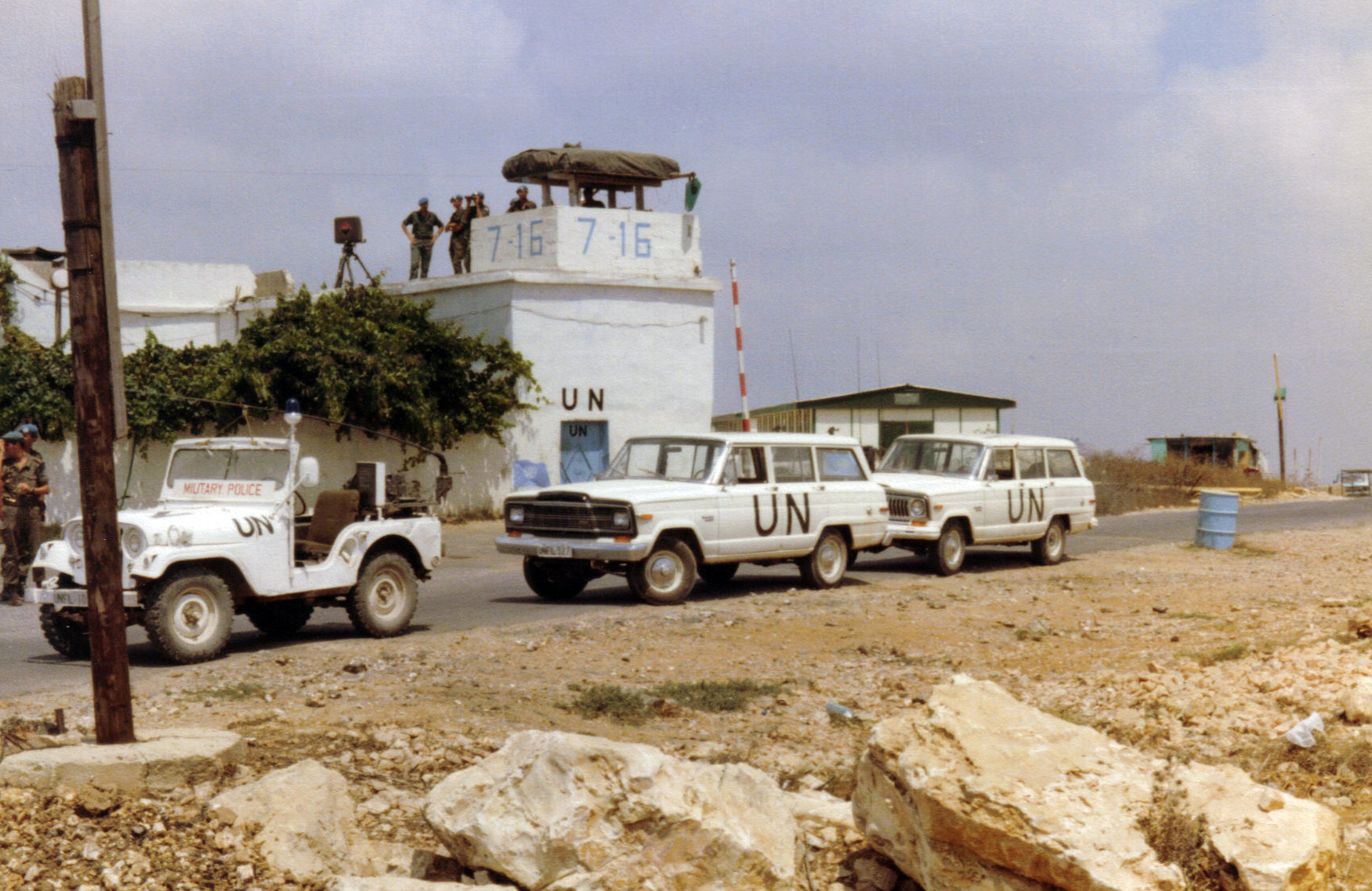 Thuisbasis, 7-16